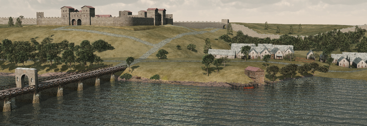 Birdseye view of Pons Aelius